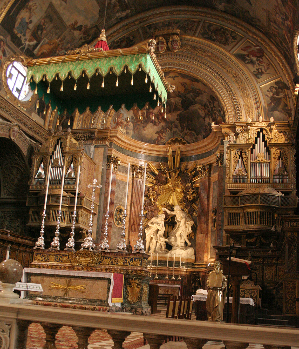 Malta, Valletta, St. John's Co-Cathedral, front